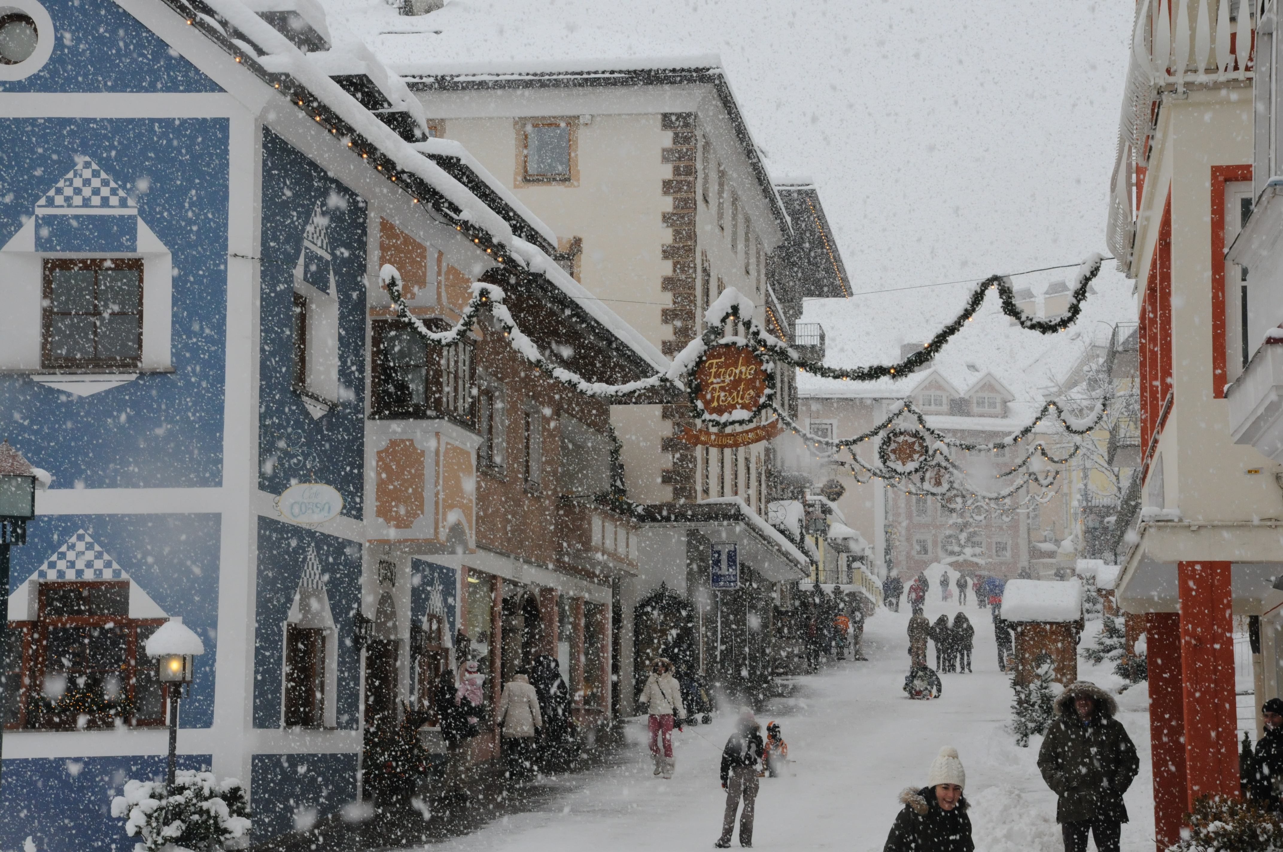 Ortisei Val Gardena, center of town.